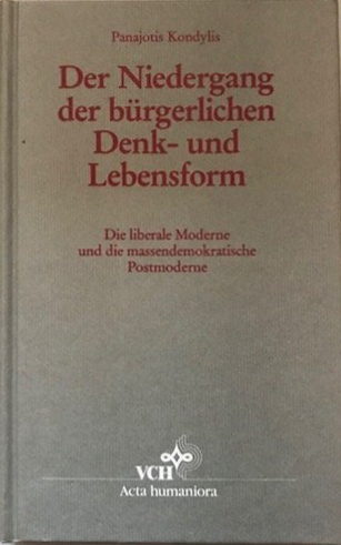 Book cover of Der Niedergang der bürgerlichen Denk- und Lebensformen. Die liberale Moderne und die massendemokratische Postmoderne (The Decline of Bourgeois Thought- and Life-Forms. The Liberal Modern and the mass-democratic Post-modern), by Panajotis Kondylis.